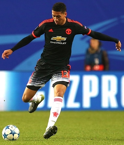 Chris Smalling